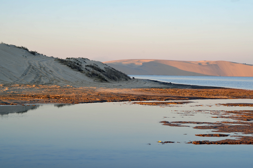 Once the dune bashers in their Land Crusiers have gone home, the desert becomes quite tranquil.